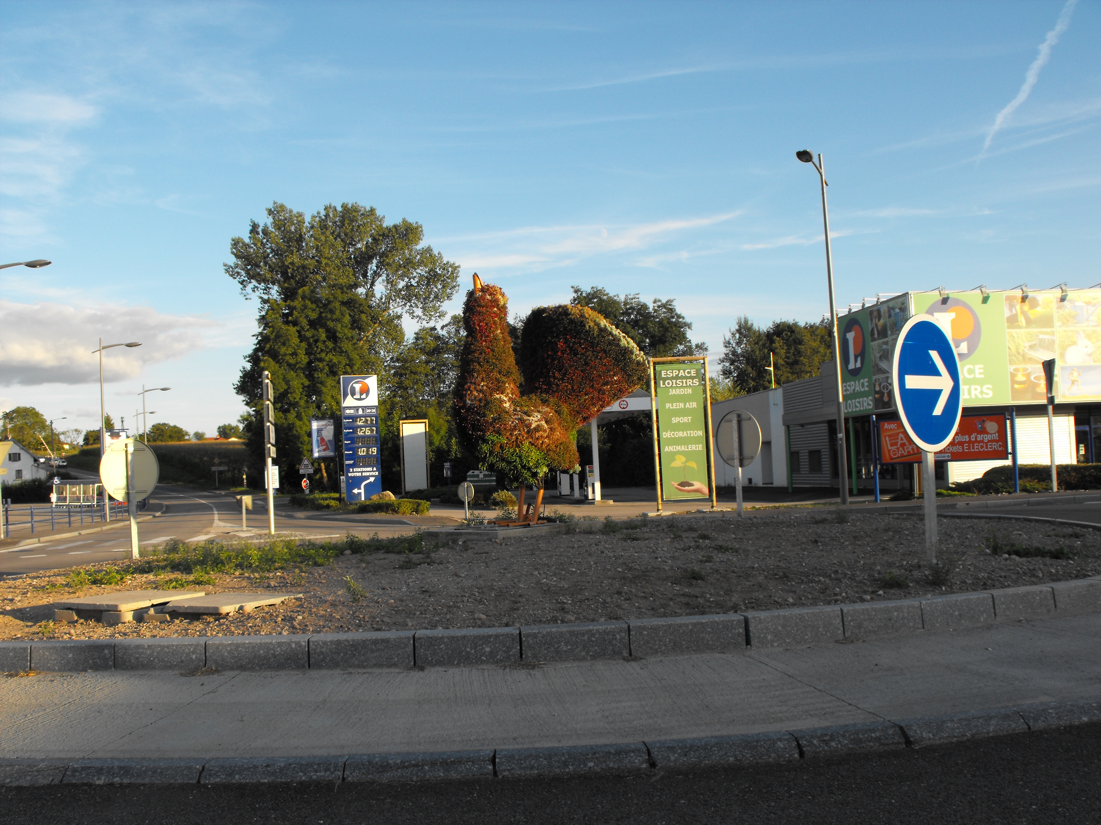 The emblem of Bruyeres: his cock.